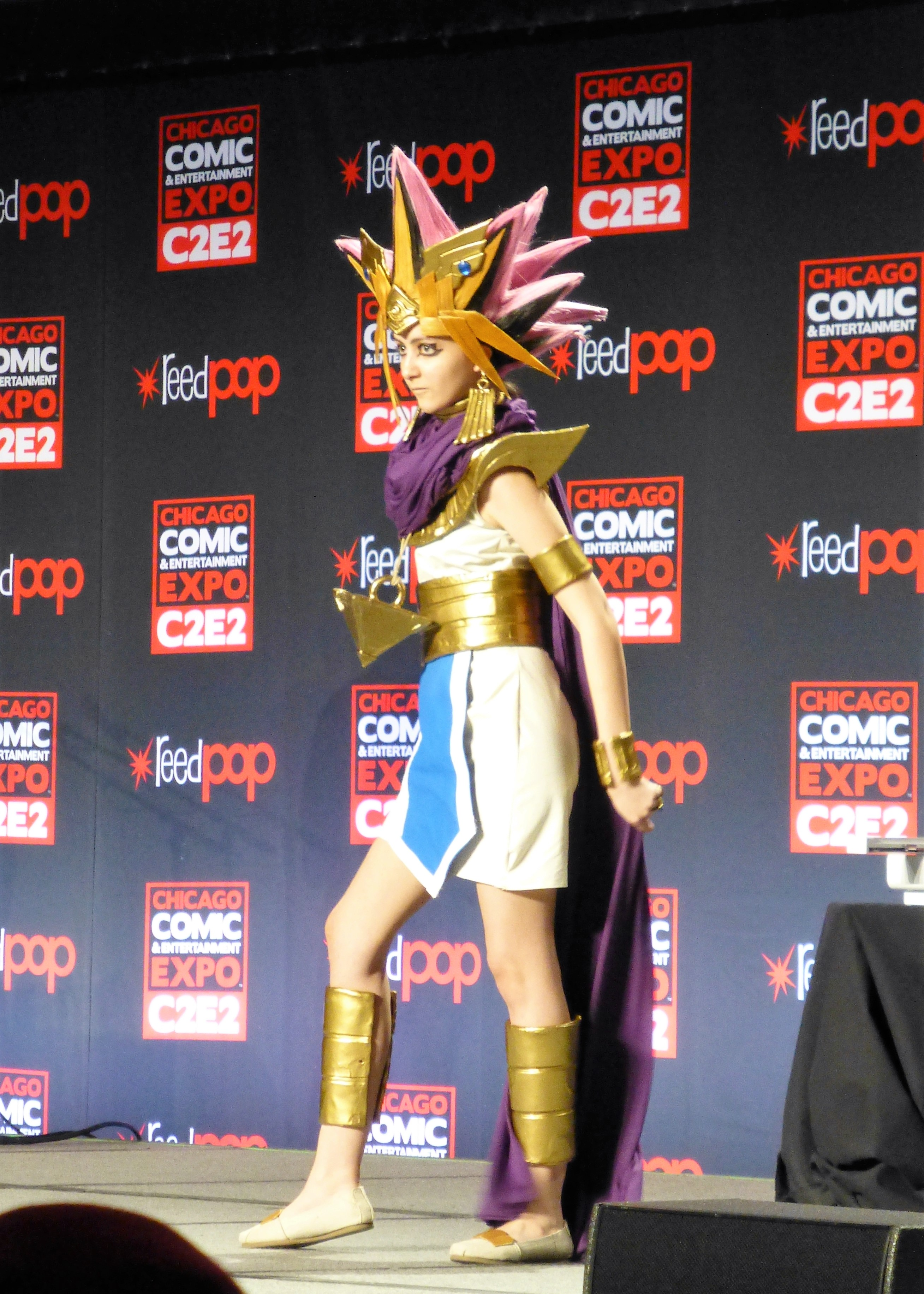 Abigail King (also known as Yami No Cosplay) as Pharaoh Atem (from Yu-Gi-Oh!) in the Third Annual ReedPOP Crown Championships of Cosplay held at Chicago Comic & Entertainment Expo (C2E2) 2016.